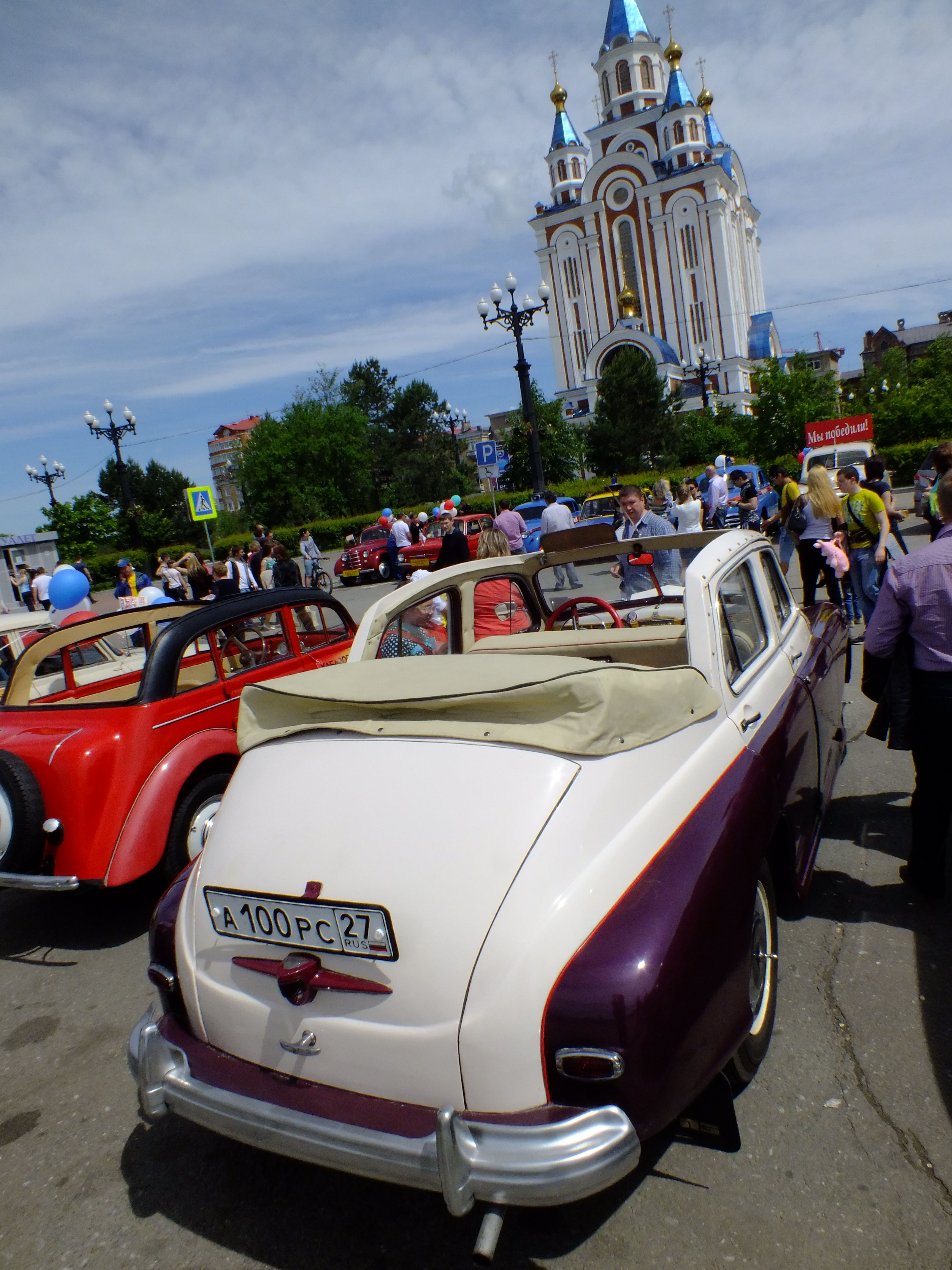 GAZ-M20V Pobeda - custom conversion to cabrio